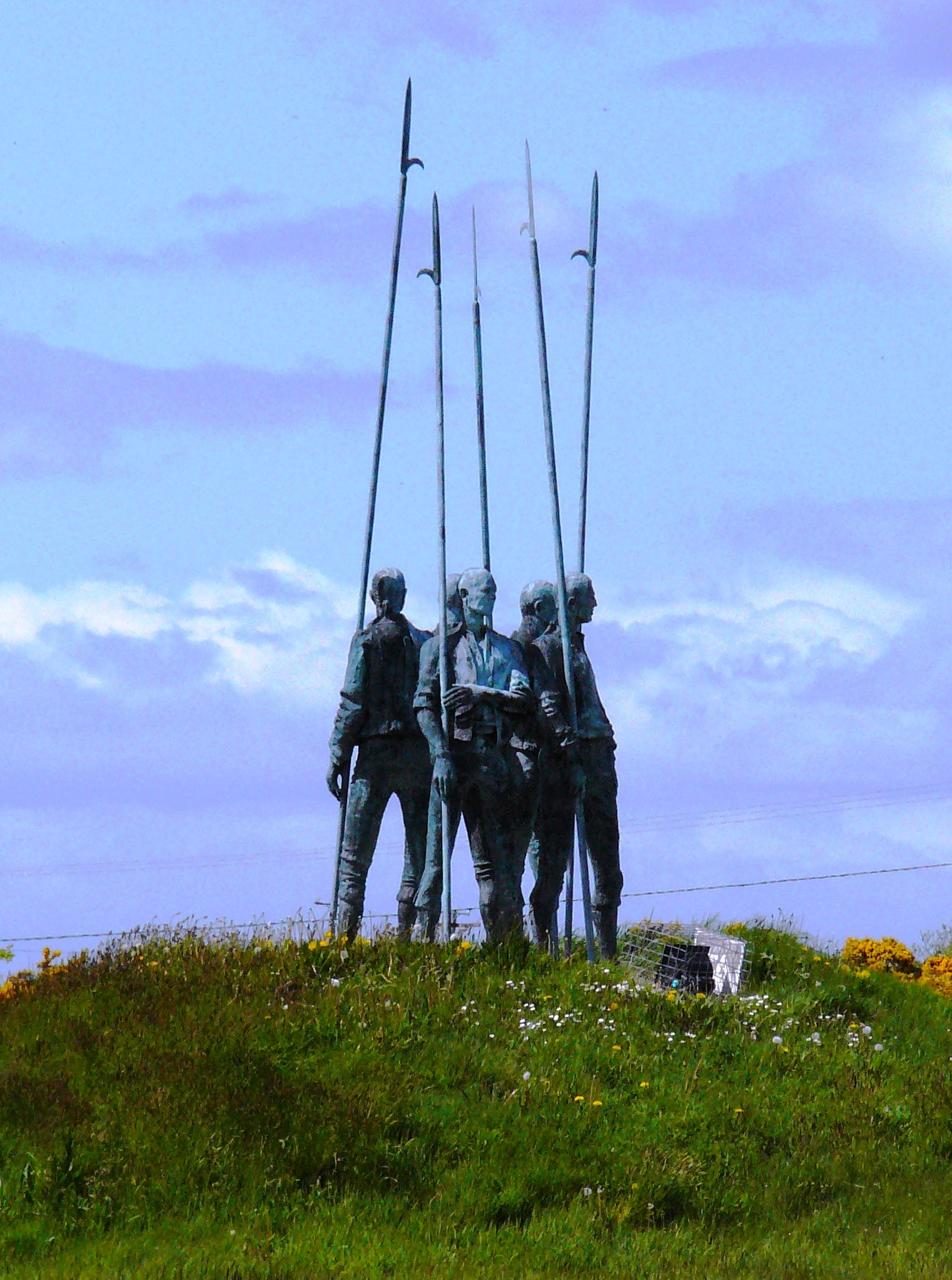 Bronze monument commemorating Wexford Rebelion Pikemen (Gaelic "Fuascailt") of the United Irishmen's 1798 Rebellion. It stands left side of the N25 road between the towns of Wexford and New Ross, Co Wexford, Ireland. The inscription on its information plate reads: Wexford County Council "Fuascailt" On May 30th, 1798, United Irish Insurgent forces intercepted the reinforcements for the Wexford garrison at this place. The overwhelming of the troops resulted in the evacuation of Wexford by Crown forces. In this engagement Colonel Thomas Cloney, of the Bantry Battalion of the United Irishmen commanded the Insurgent forces. In the nearby Church Meadow lie some 80 men of the Royal Artillery and Meath Militia who were killed in the battle. "There is nothing surer than that Irishmen of every denom- ination must stand or fall together." William Orr, 1797. Unveiled by Mr. Hugh Byrne, Minister of State at the, Department of the Marine and Natural Resources on the 16th of November 1998. Chairman of Wexford County Council Leo Cartney, County Manager Seamus Dooley, Sculptor Éamonn O'Doherty.